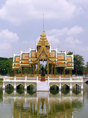 Aisawan Dhiphya-Asana Pavilion, Bang Pa-In Royal Palace, Thailand